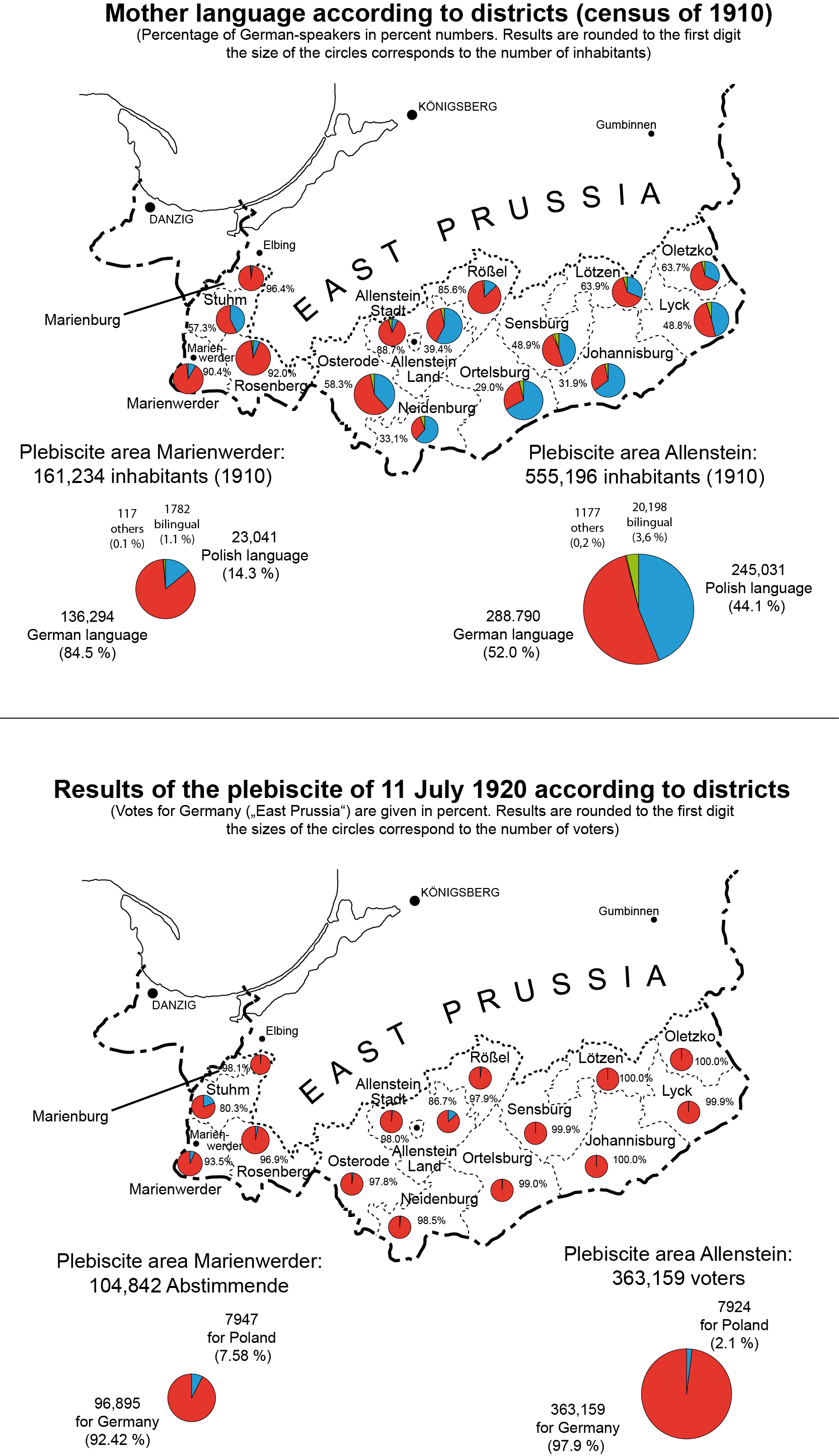 Mother language (German, Polish, bilingual, others) according to the 1910 census and results of the East Prussian plebiscites on July 11th 1920.